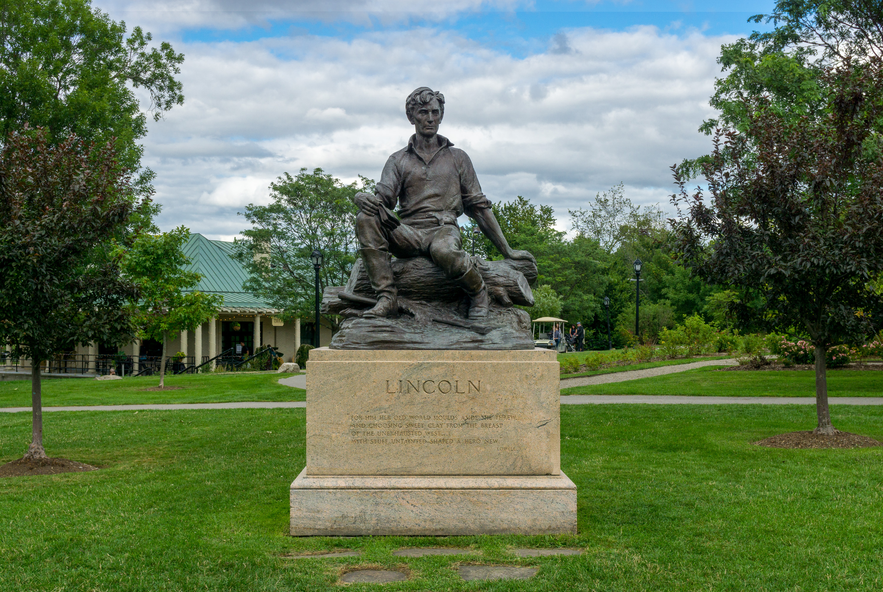 Abraham Lincoln Statue Lincoln Parkway, Delaware Park, Buffalo, NY Bryant Baker, sculptor 1935